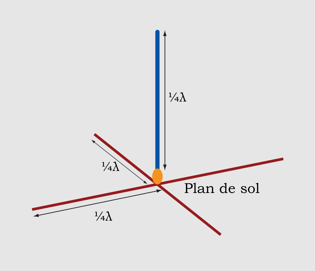 Drawing of a quaterwavelenght ground plane antenna with a tuned articial ground plane.